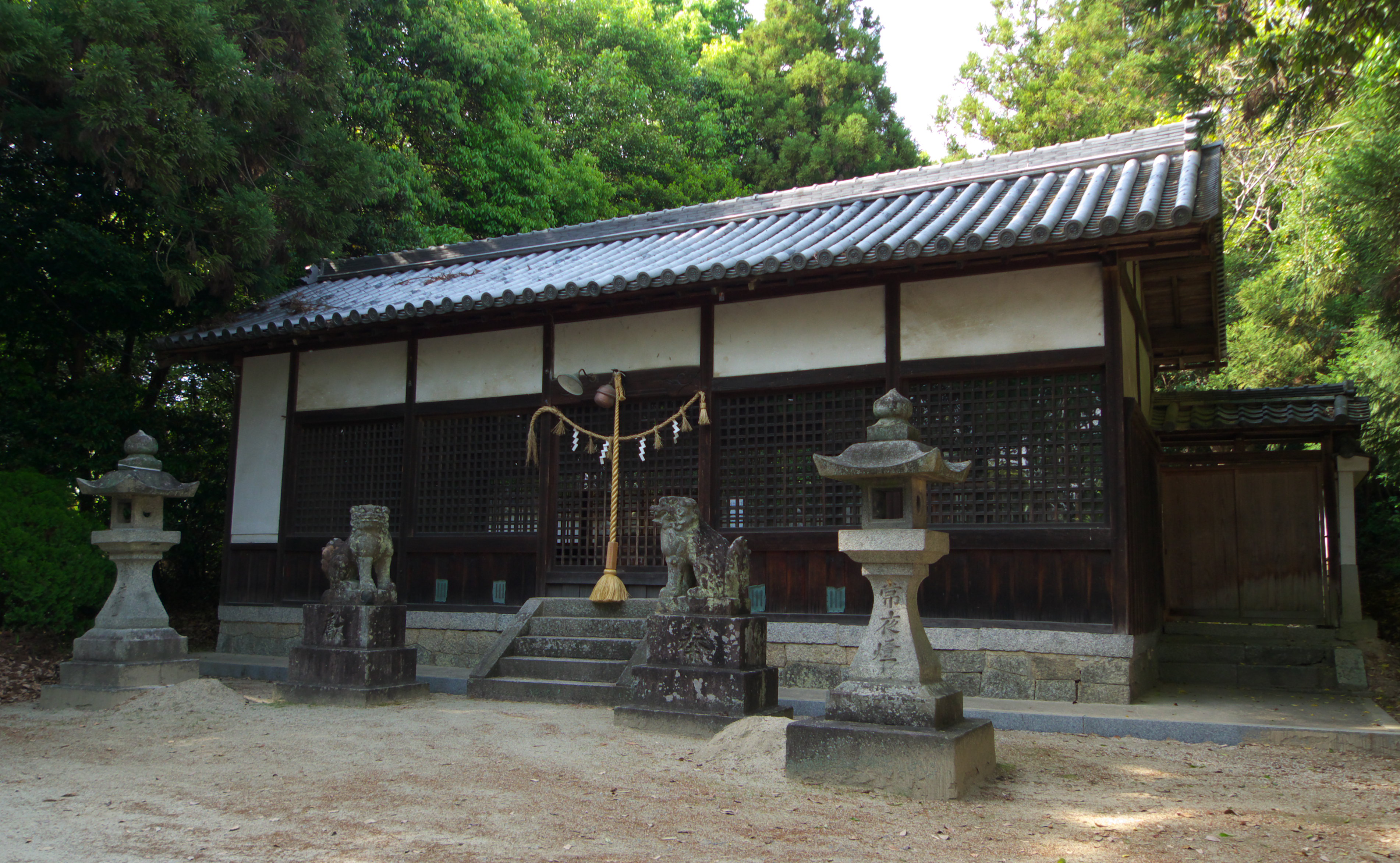 The Haiden of Sanuki Jinja in Kōryō, Nara, Japan.